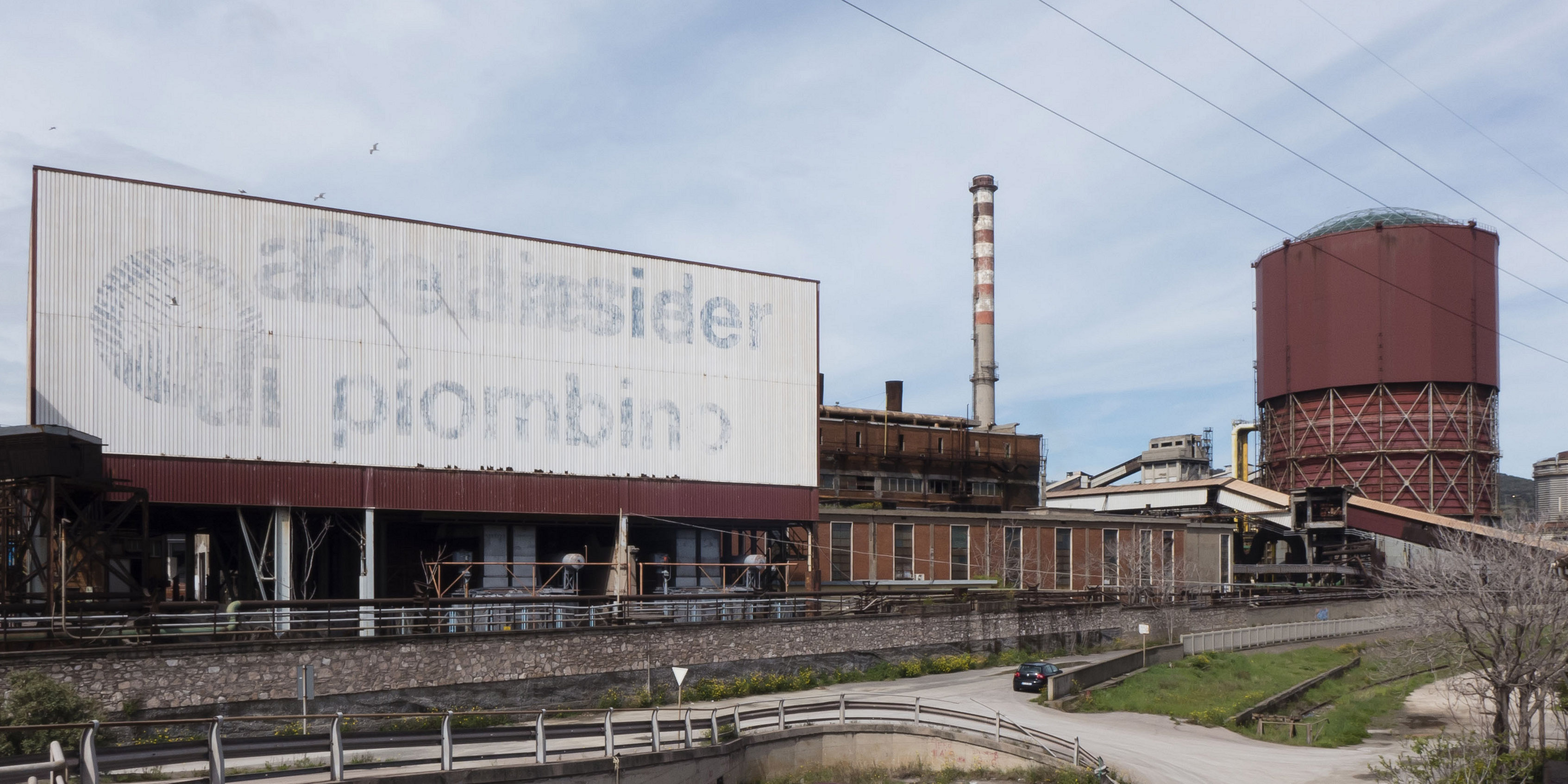 Badly deleted superimposed "Acciaierie di Piombino" and "Deltasider Piombino" corporate marks on a warehouse in Piombino, Italy